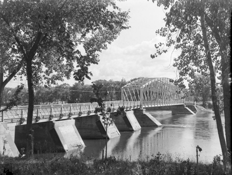 We see the Jacques-Bizard Bridge (completely rebuilt since) between Montreal and Île Bizard.